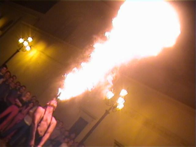 Danger Bob Breathes fire in a street performance, this flame is achieved by spitting with pressure parrafin/kerosene or ecodiesel, once vaporised it burns due to a hand held wick. For health puropose's it is neccesary to drink milk or better still olive oil before and after, however the risk of serious injury remains high.